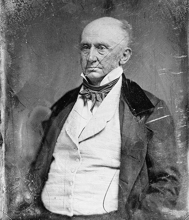 George Washington Parke Custis, half-length portrait, three-quarters to the left, wearing white waistcoat. Builder and original owner of Arlington House, later the Lee Mansion, Arlington (Va.); author, historian, artist (painter). 1 photograph : half plate daguerreotype, gold toned. Scratched on back of plate: 207; Custis, G.W.P. Library of Congress Prints and Photographs Division